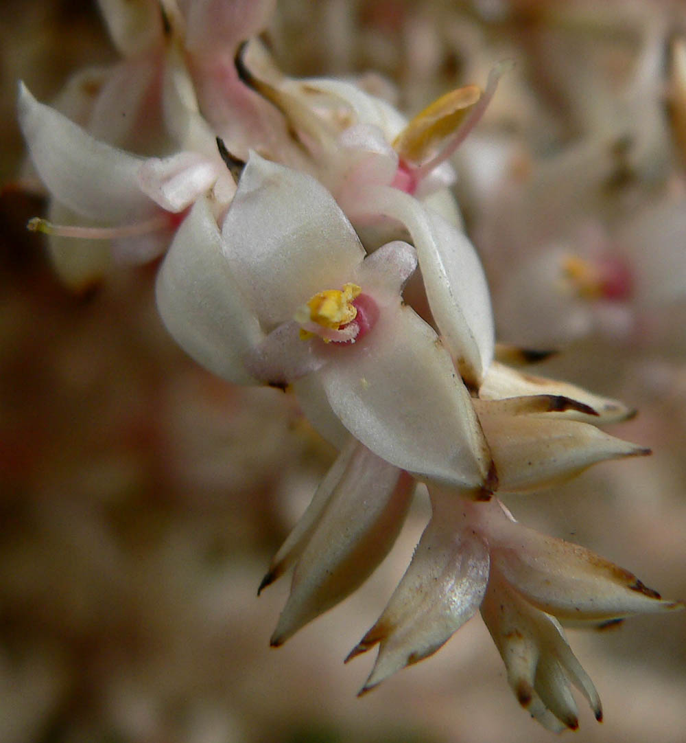 Photo of Helmholtzia glaberrima at the San Francisco Botanical Garden